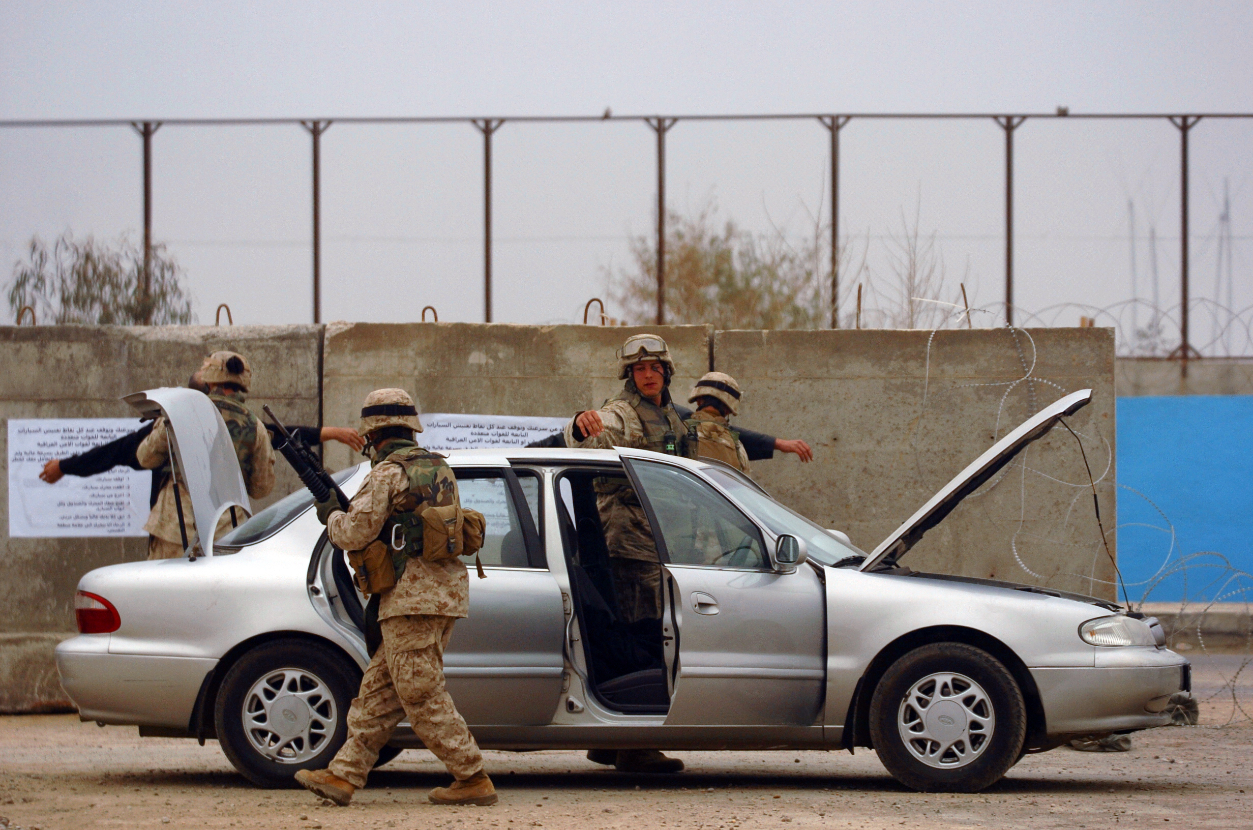 Ramadi, Iraq (Feb. 20, 2005) – U.S. Marines and Sailors, assigned to 1st Marine Division, 2nd Battalion, 5th Marines, search Iraqi vehicles and their occupants at a Ramadi, Iraq checkpoint. Marines and Sailors are currently conducting Operation River Blitz to limit the movement of insurgents by use of checkpoints in vital entry points to the city. U.S. Navy photo by Photographer's Mate 1st Class Shane T. McCoy (RELEASED)